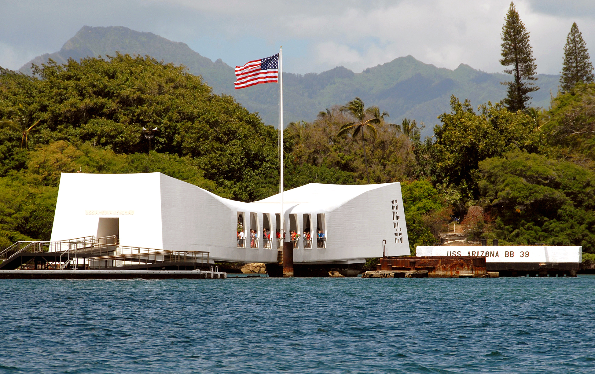 Guests aboard USS Arizona Memorial look out at Pearl Harbor, Hawaii, March 26, 2008. The memorial sits directly above the sunken Pennsylvania-class battleship, which was attacked by the Japanes on Dec. 7, 1941.